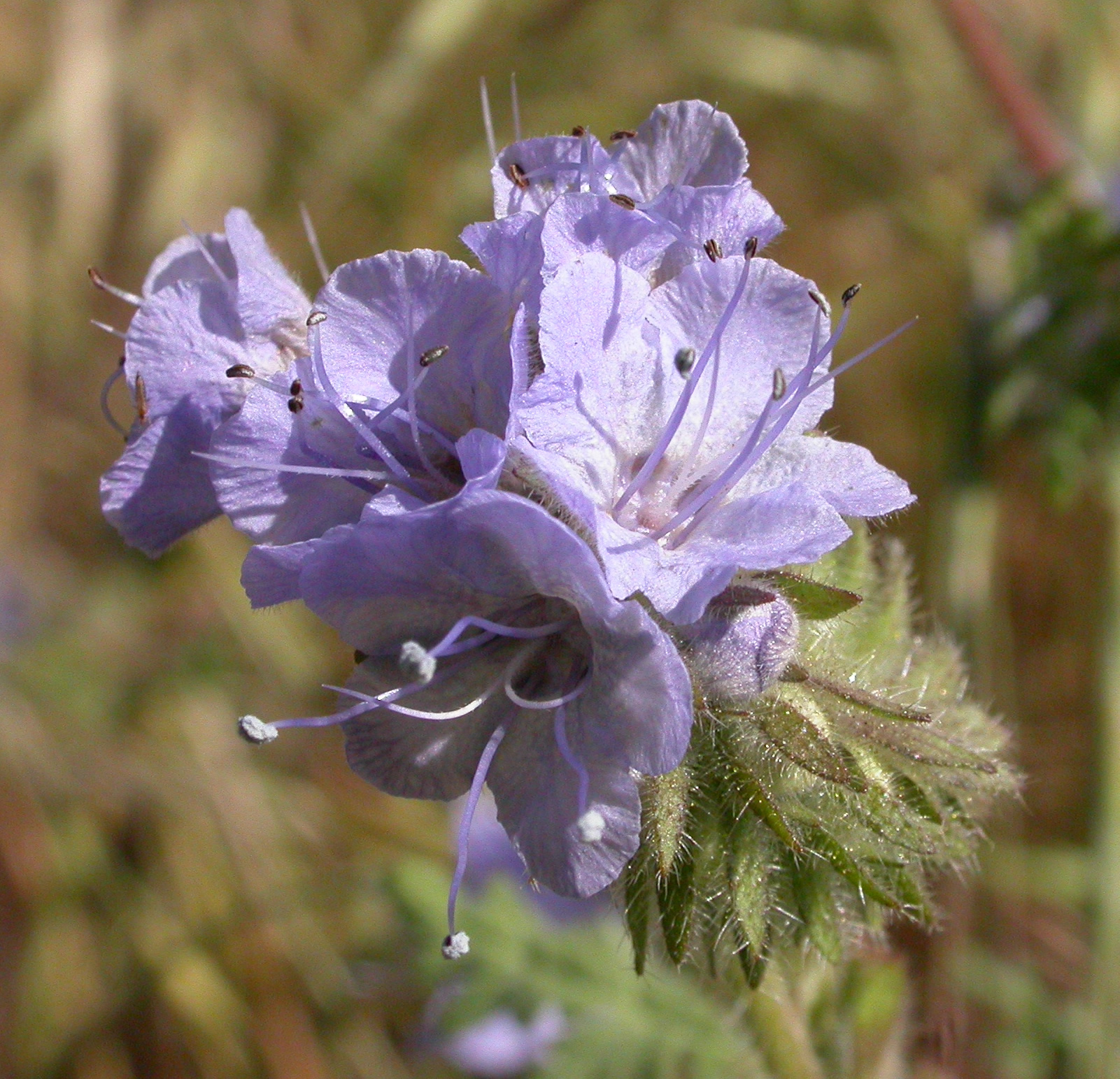 Phacelia tanacetifolia Voorhis Ecological Reserve, near Pomona, California.